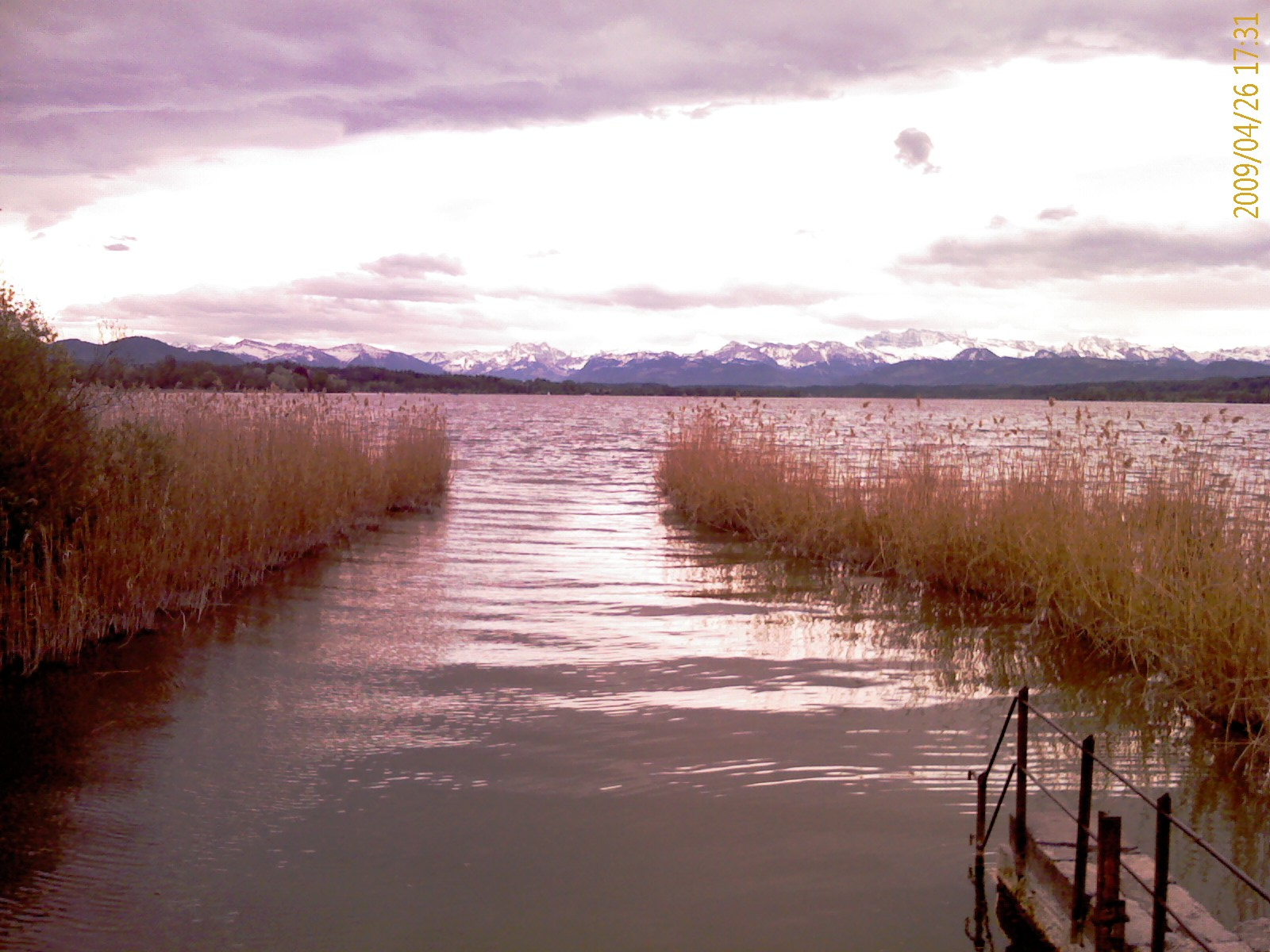 Outflow of the river Glatt from lake Greifensee - in the background the Alps, canton of Zürich, Switzerland